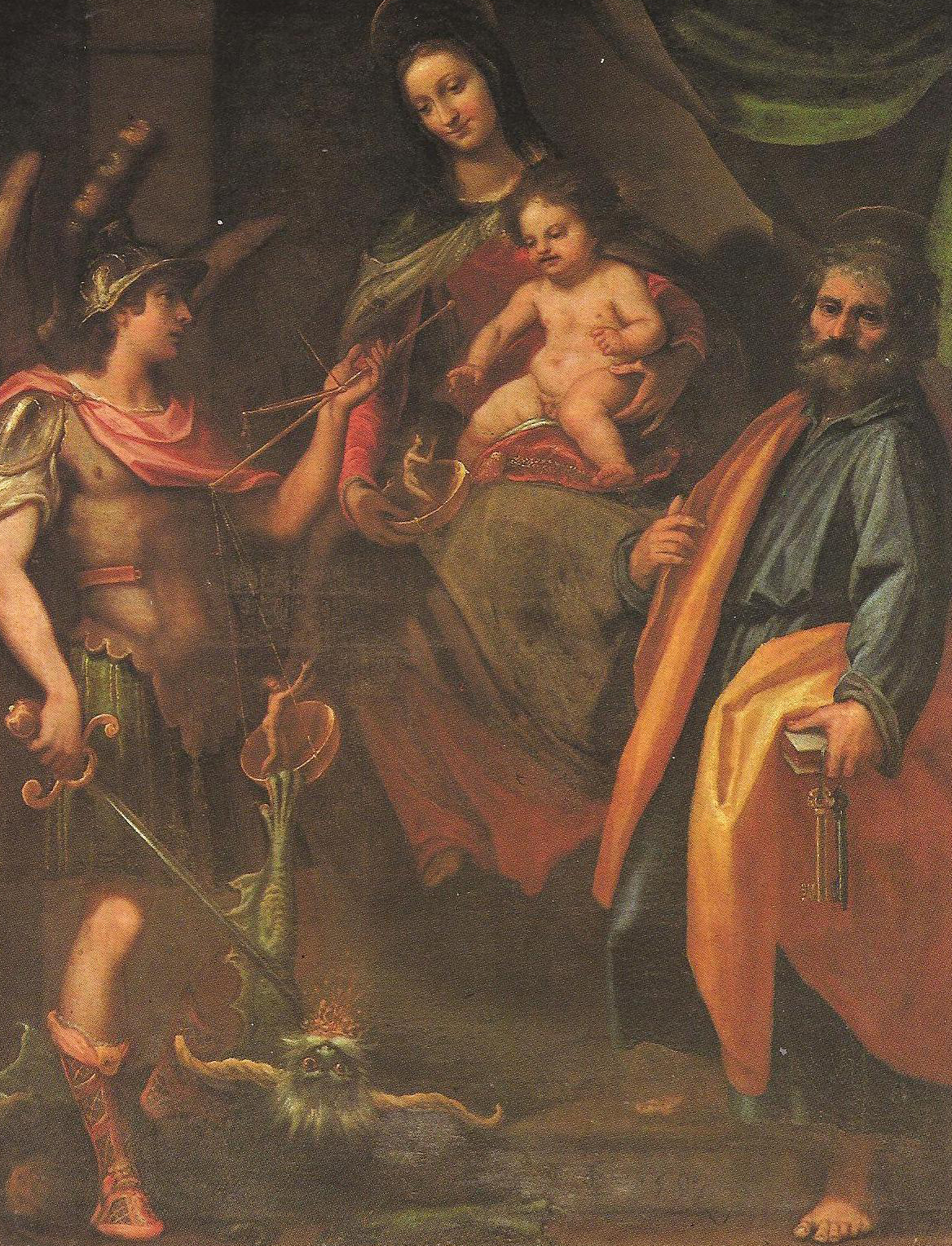 Opere del Cigoli